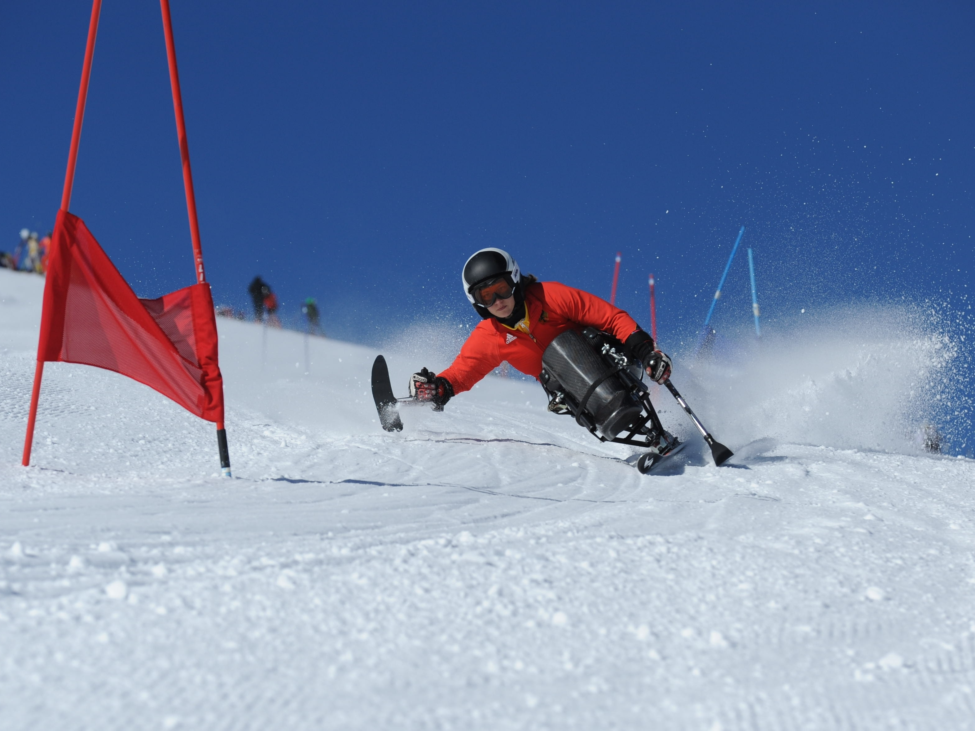 Anna Schaffelhuber, German monoskier, during training in Hintertux, Austria